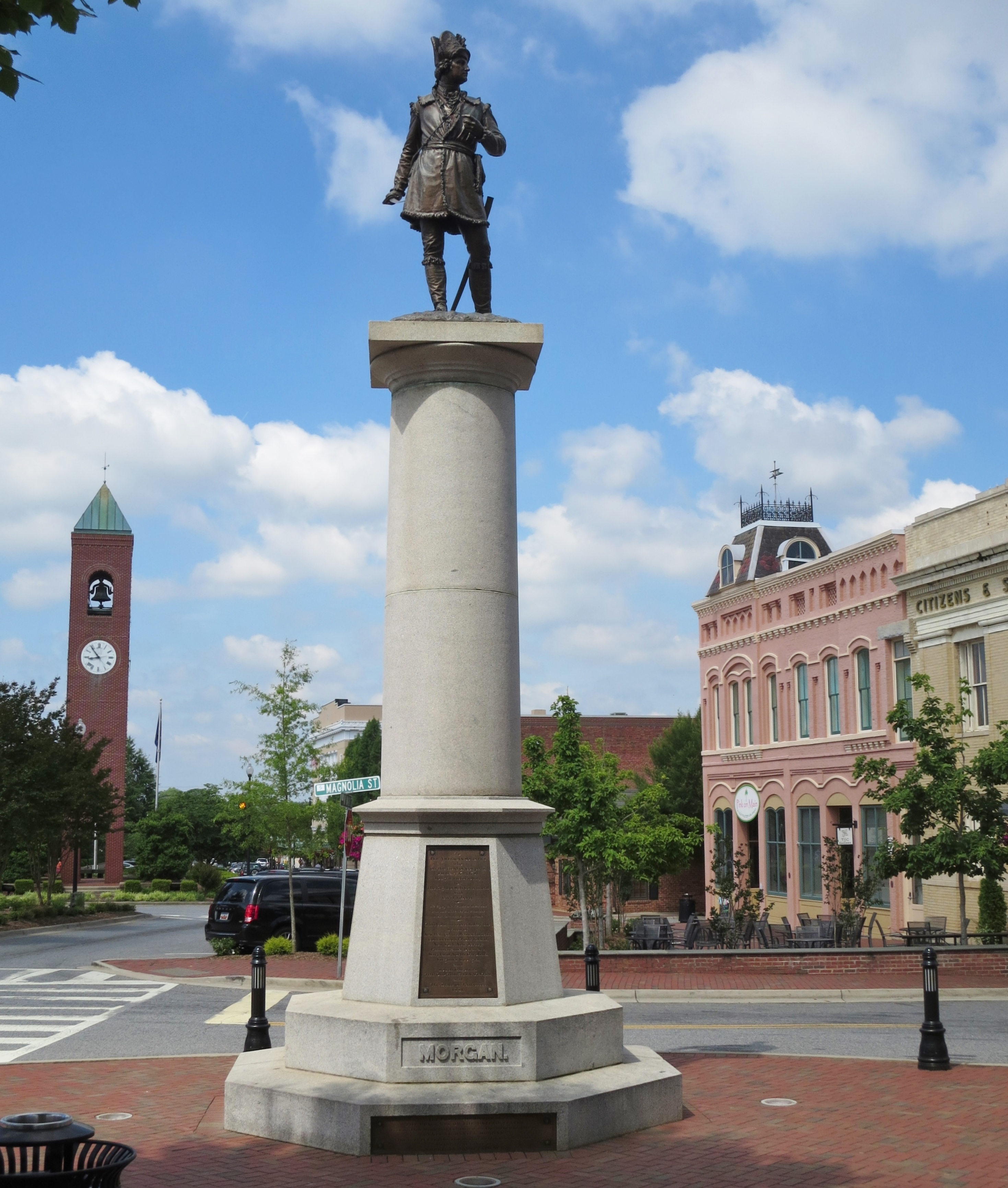 Historic monument erected in 1881 on the centennial of the Revolutionary War Battle of Cowpens to commemorate the American victory there and its hero, General Daniel Morgan.